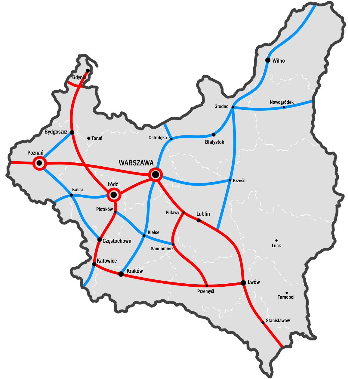 Planned highways in Second Polish Republic.